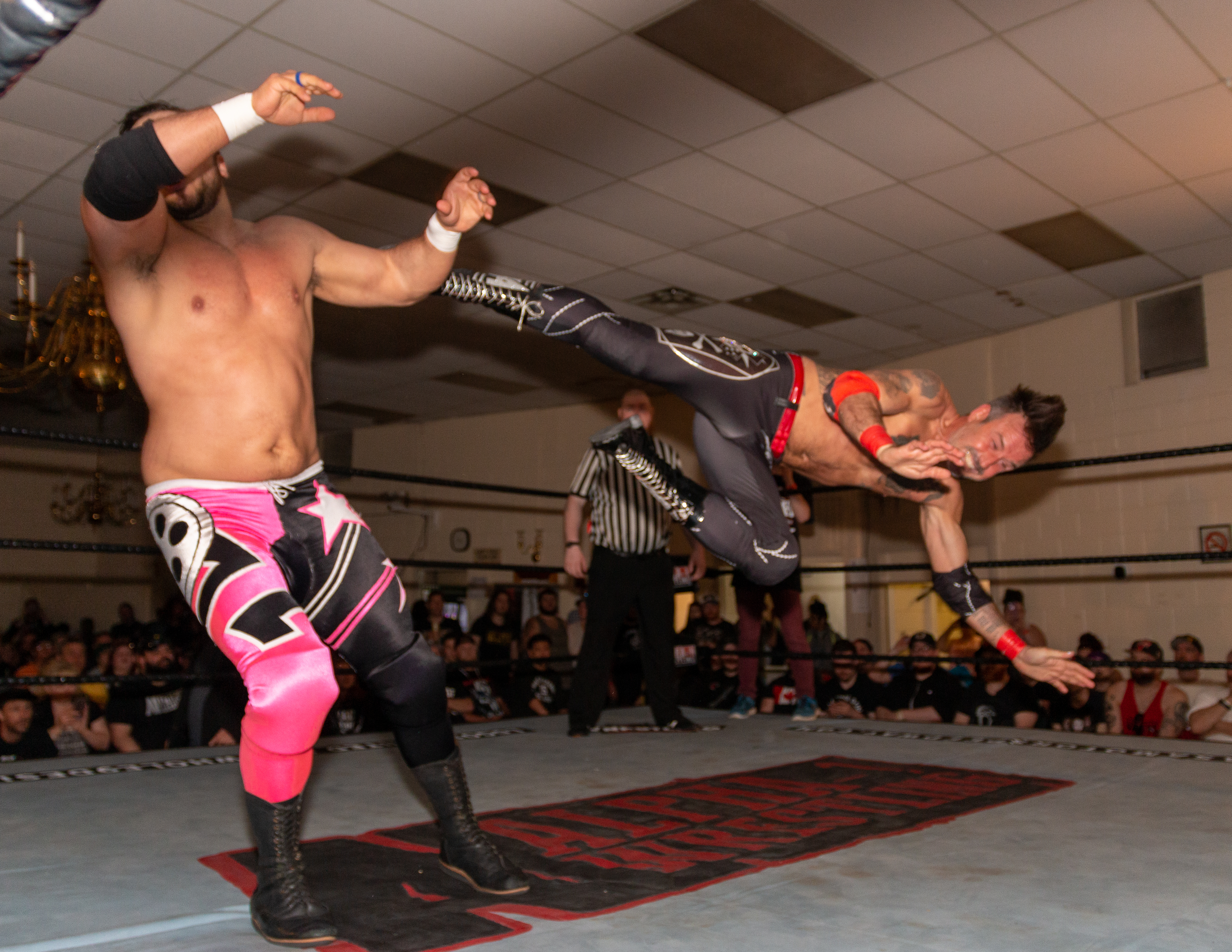 Actor/wrestler David Arquette dropkicking Ethan Page at Alpha-1's Immortal Kombat 7 show in Hamilton, ON